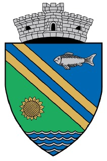 Coat of arms of 23 August (Tatlageac) commune, Constanța County, Romania